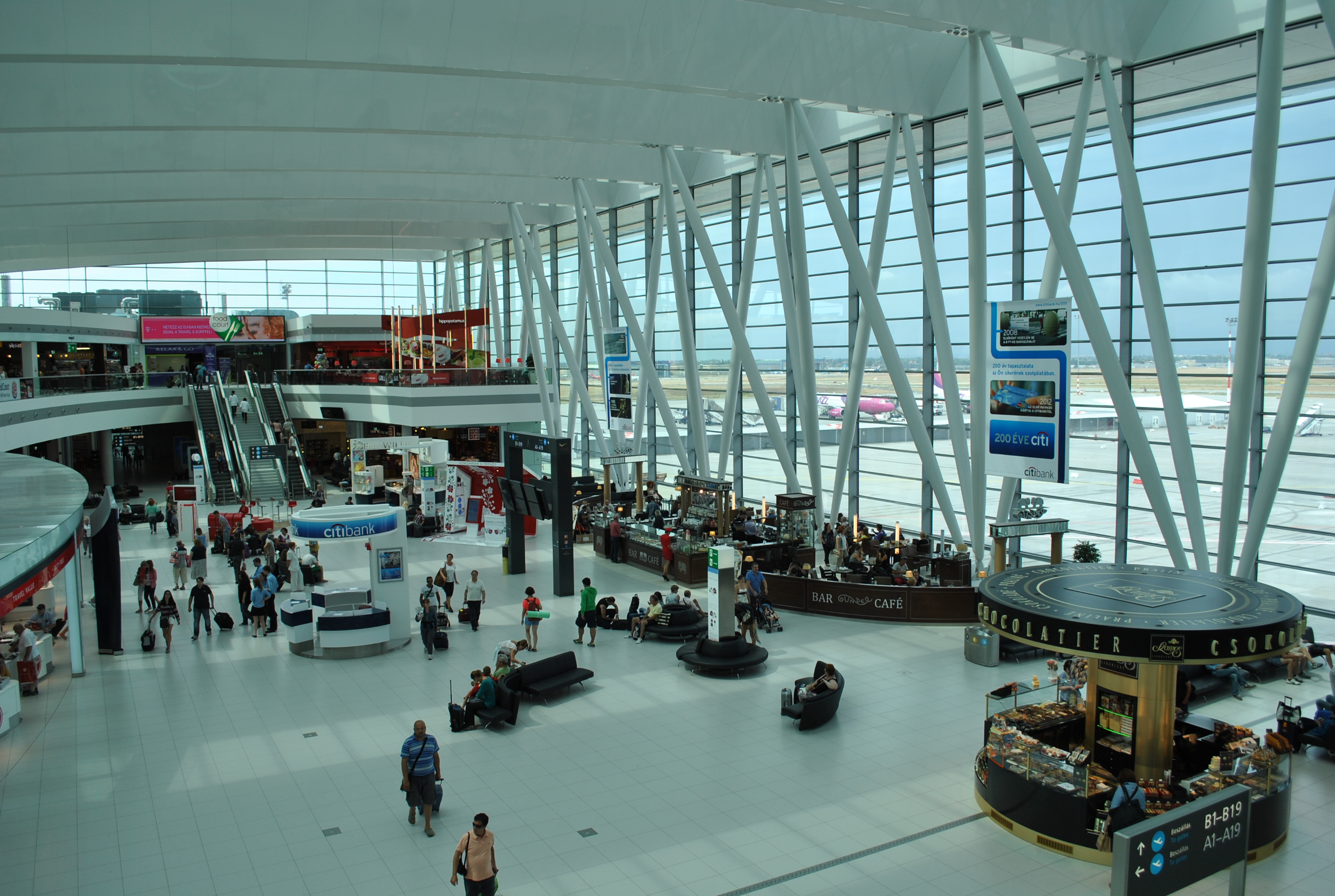 Budapest Liszt Ferenc International Airport inside of SkyCourt